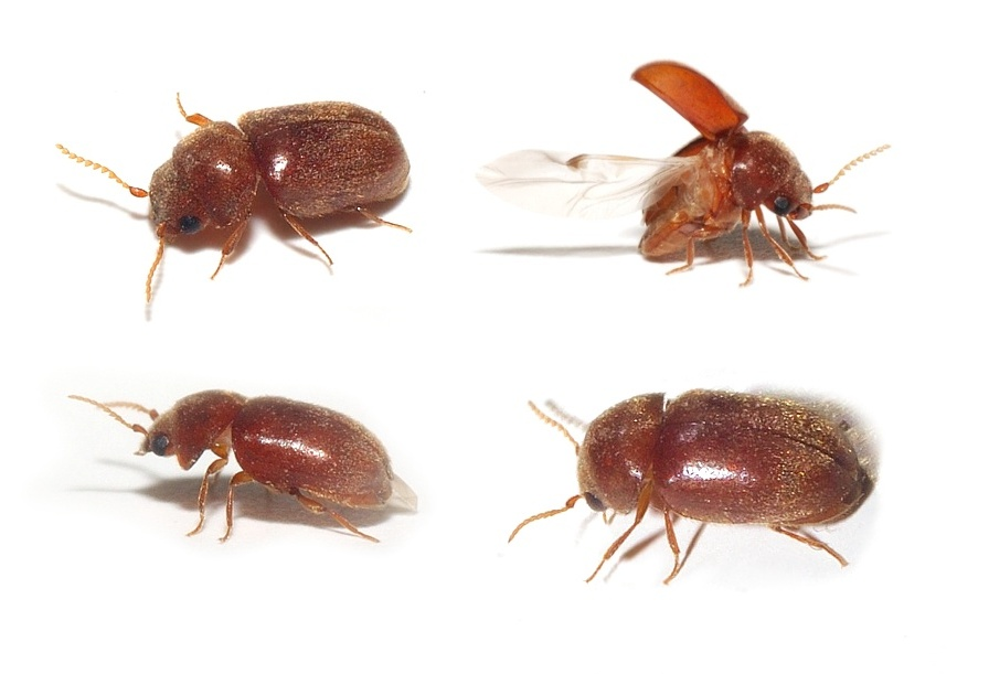 Cigarette beetle (Tobacco beetle) Lasioderma serricorne (Fabricius, 1792) . Photographs by Kamran Iftikhar.